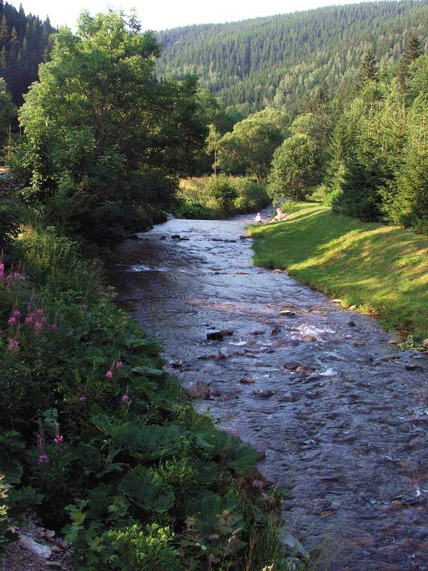 Biała Lądecka in village Bielice – a river in Lower Silesia, a right tributary of Nysa Kłodzka (Poland).